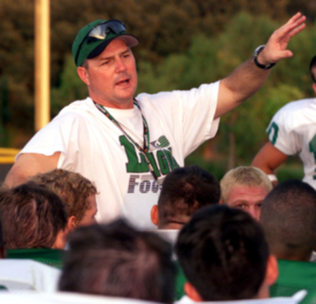 Southlake Carroll head football coach talks to his players, including quarterback Chase Daniel (standing) after a summer practice. The team would finish the season undefeated Texas 5A Division II champions and generally regarded as high school national champions.